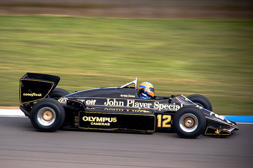 1985 Ayrton Senna Lotus 97T at the Renault World Series, Donington Park 2007